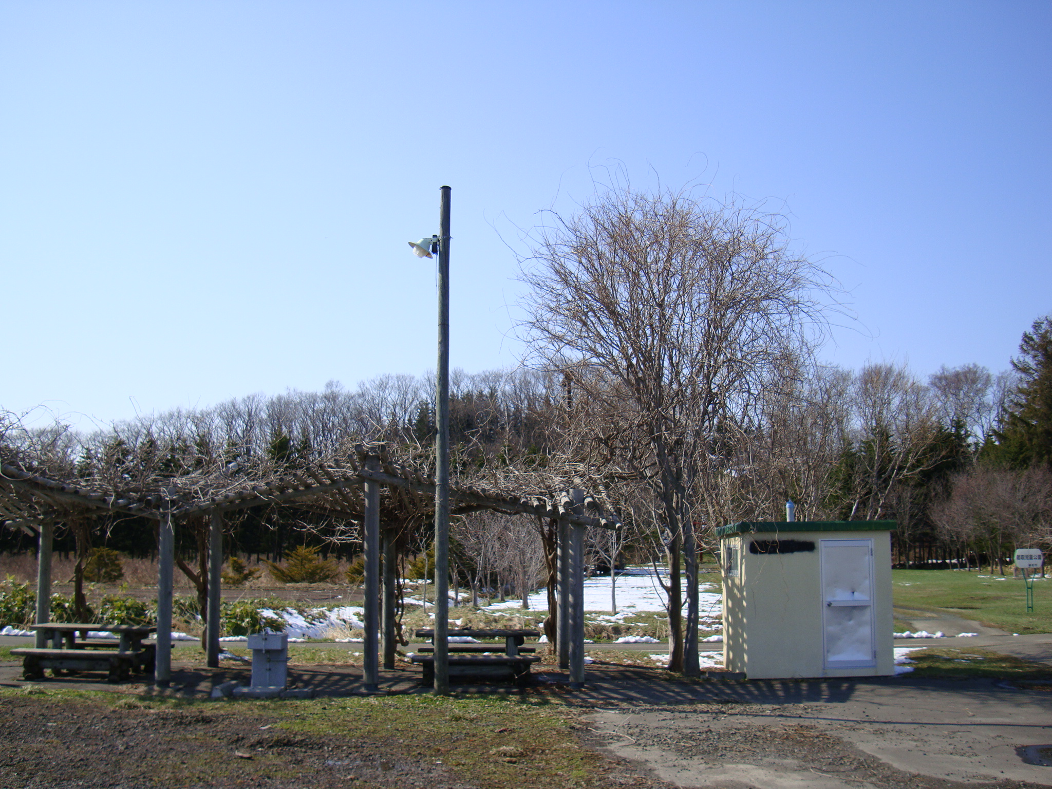 Notoro Station removal trace on Yūmō Line.